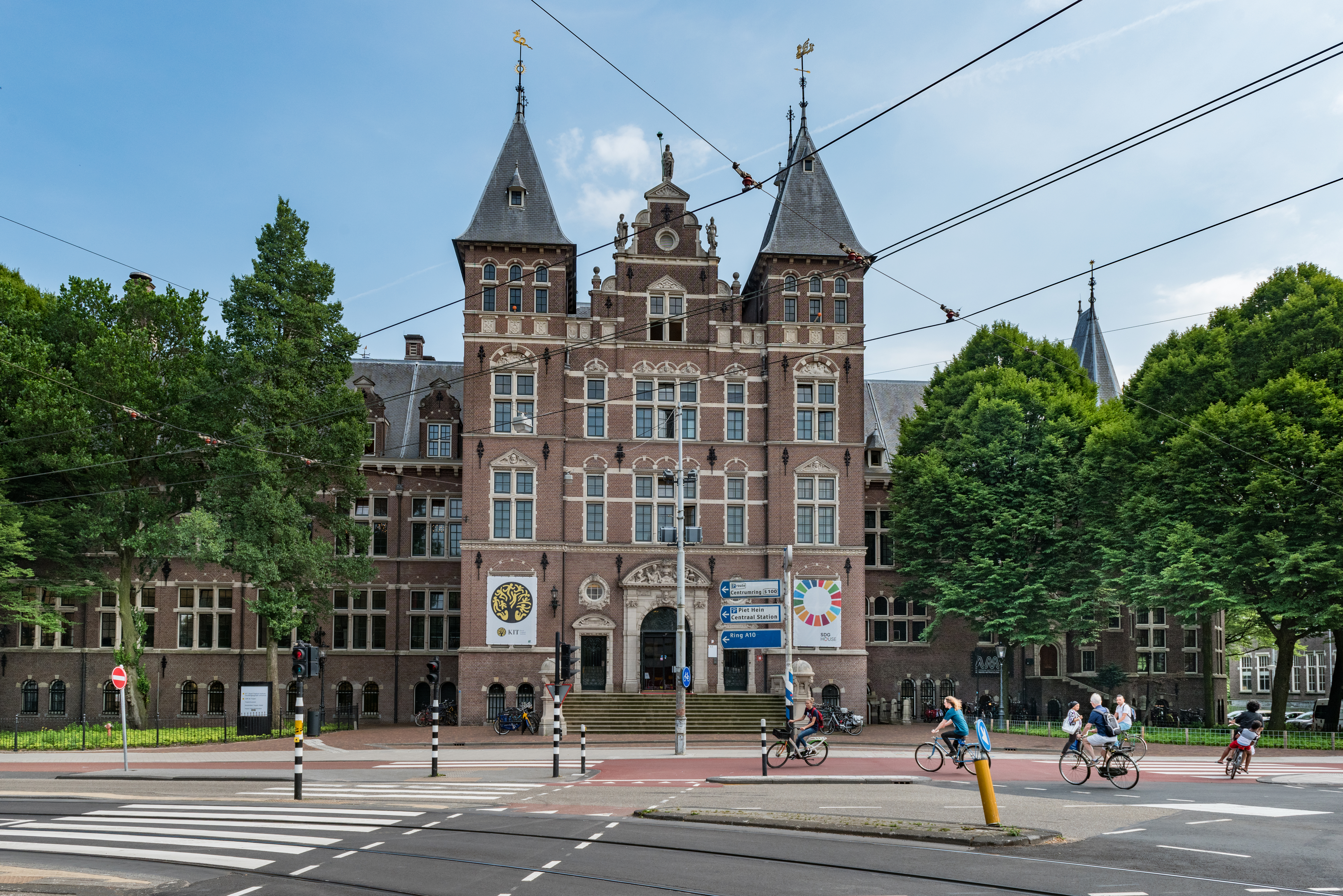 The front of the KIT Building, Mauritskade 64